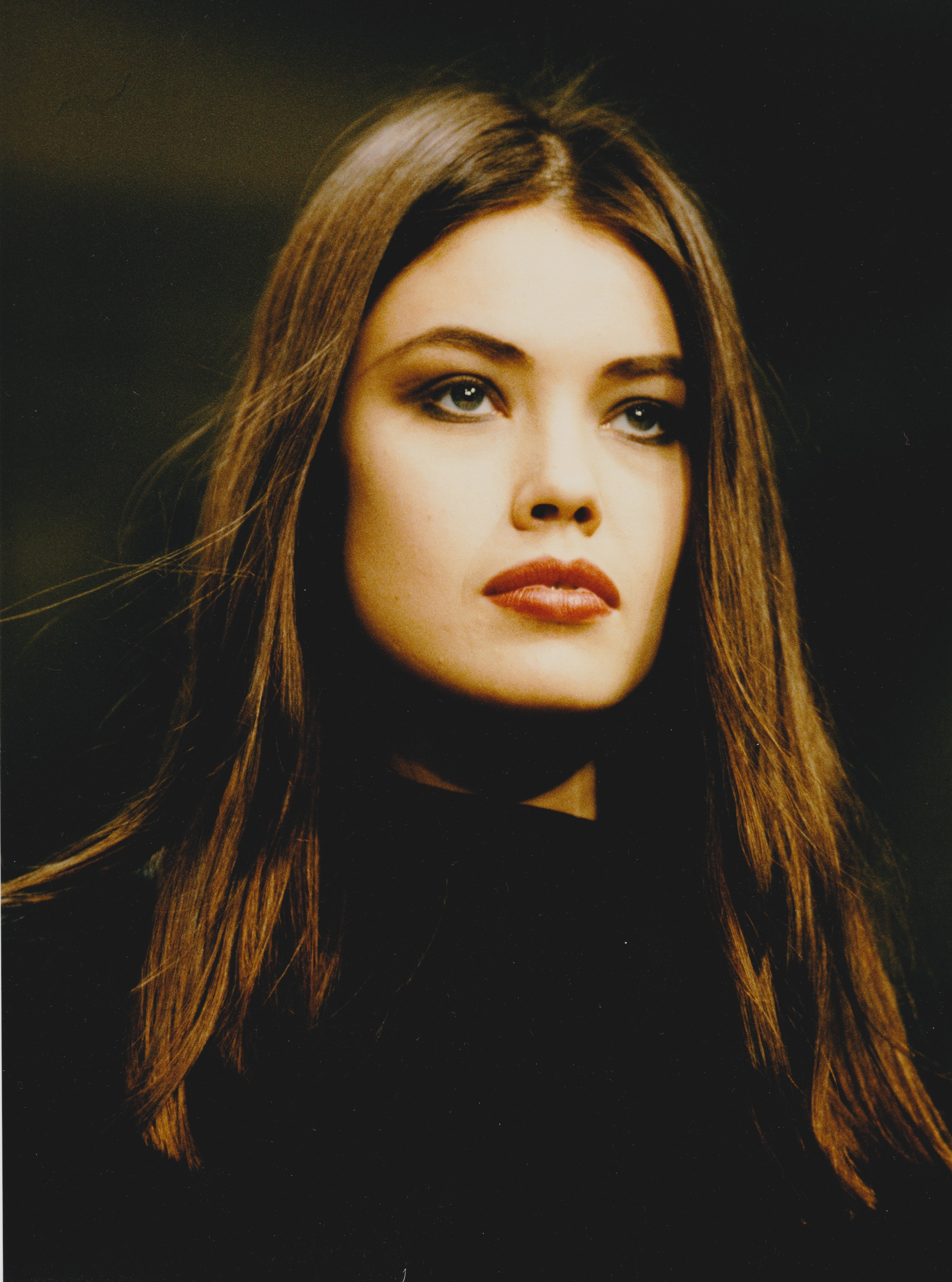 Tatiana Sorokko, New York, 2002